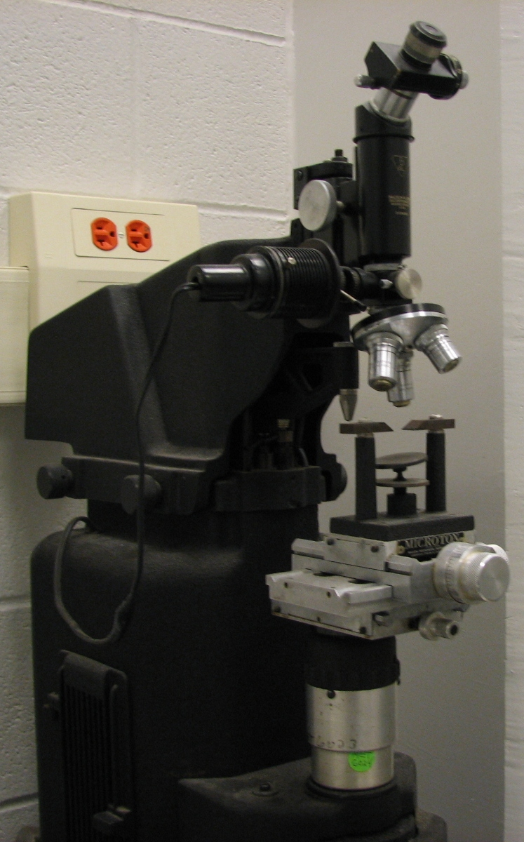 Photograph of a Vickers hardness tester